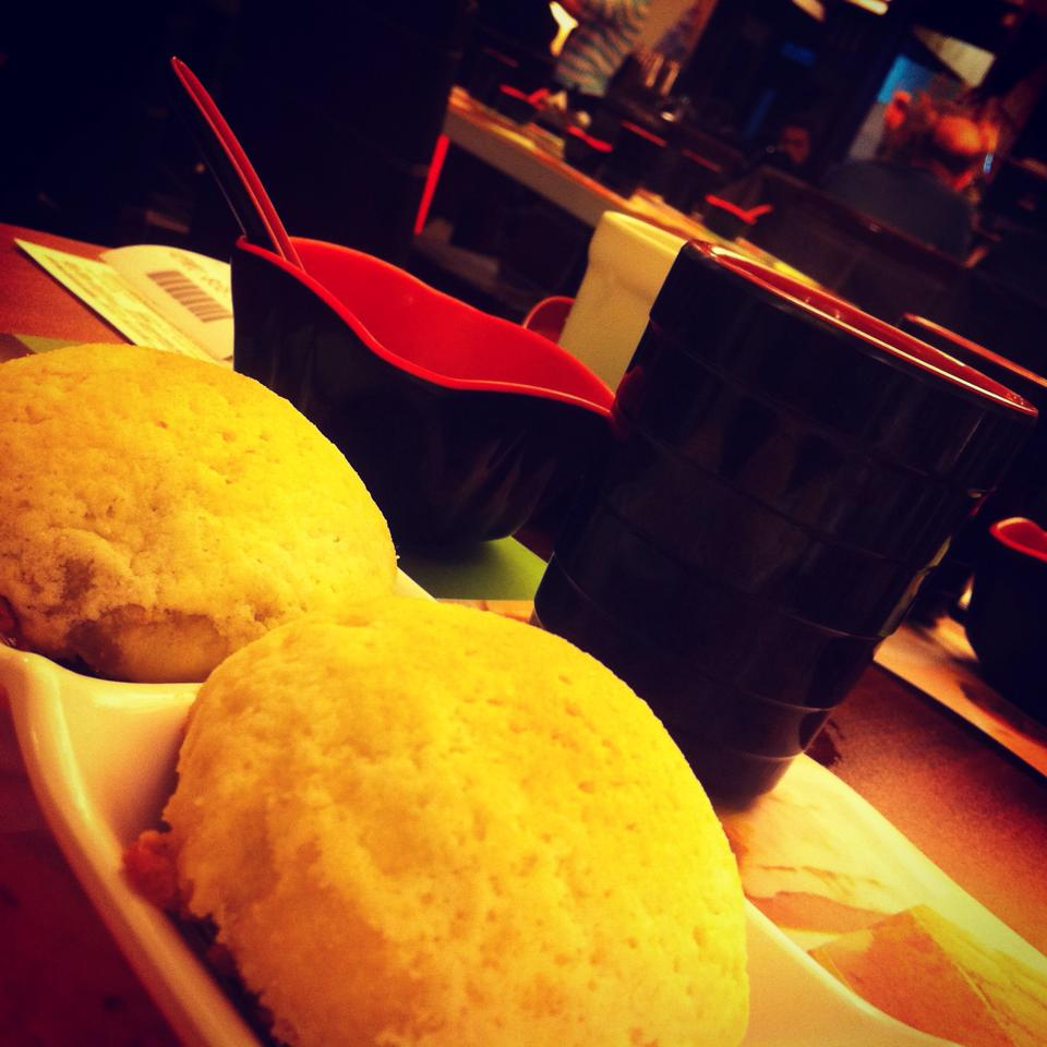 Tim Ho Wan's famed Baked BBQ pork buns